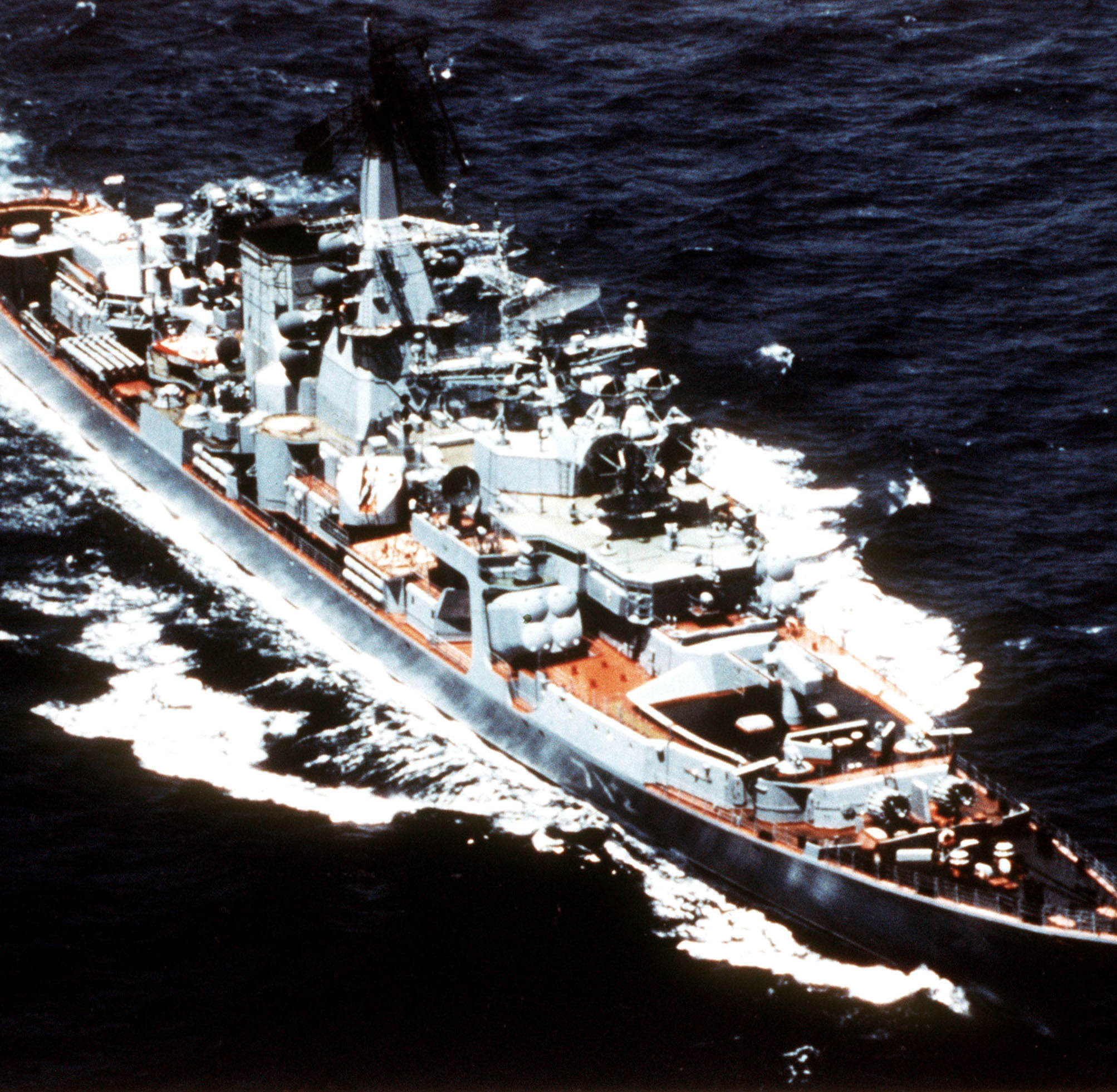 Kara class guided missile cruiser. Courtesy of Soviet Military Power, 1984. Photo No. 68, page 66.